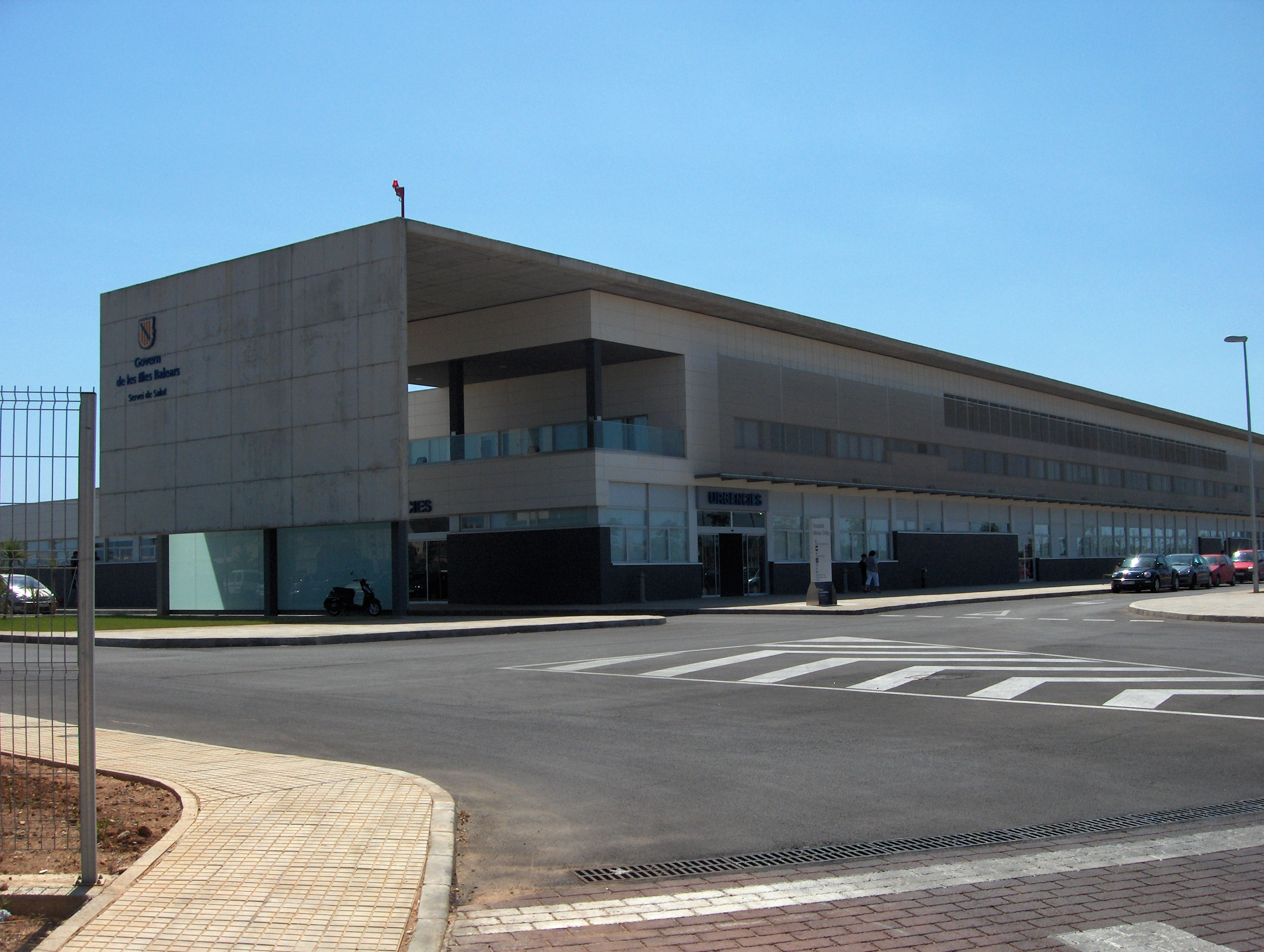 Mateu Orfila Hospital (Minorca).